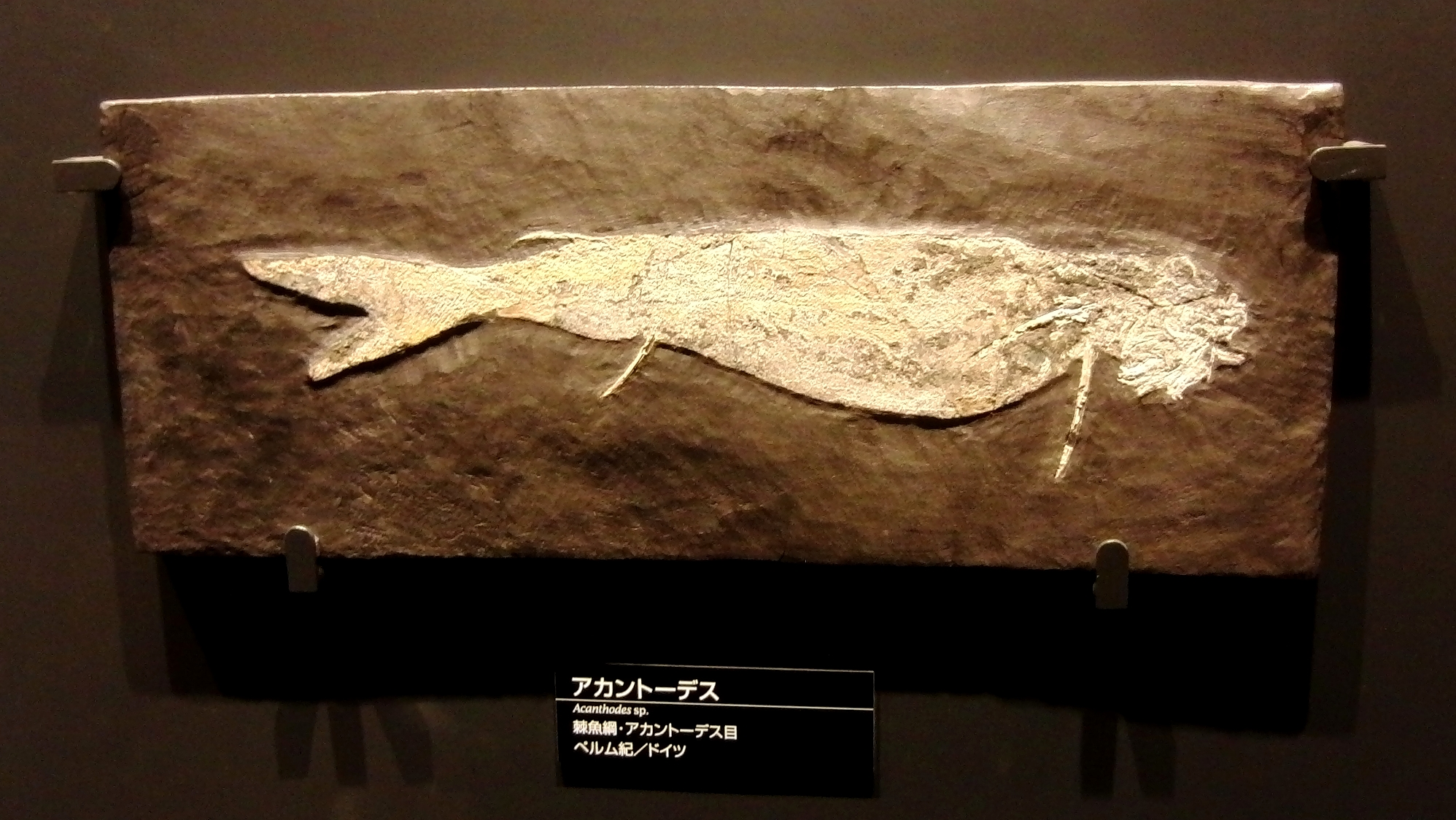 Fossil of Acanthodes (Acanthodes sp.). Exhibit in the National Museum of Nature and Science, Tokyo, Japan.